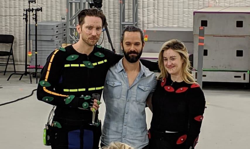 Behind-the-scenes of the motion capture process of The Last of Us Part II. Left to right: Troy Baker, Neil Druckmann, Ashley Johnson.